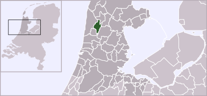 Location of Alkmaar